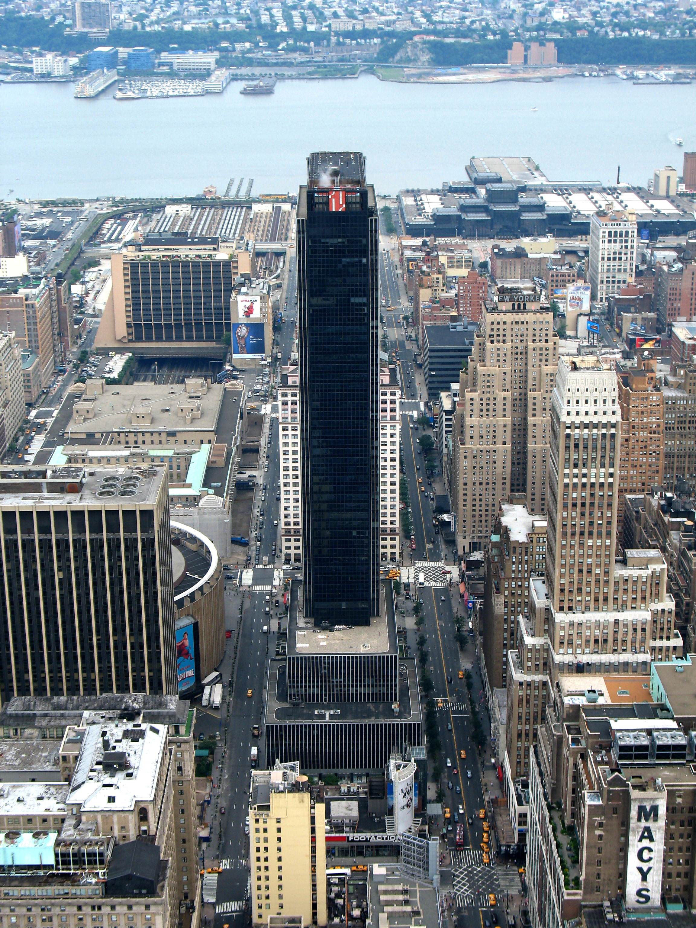 One Penn Plaza, New York. Seen from the observation deck of the Empire State Building.